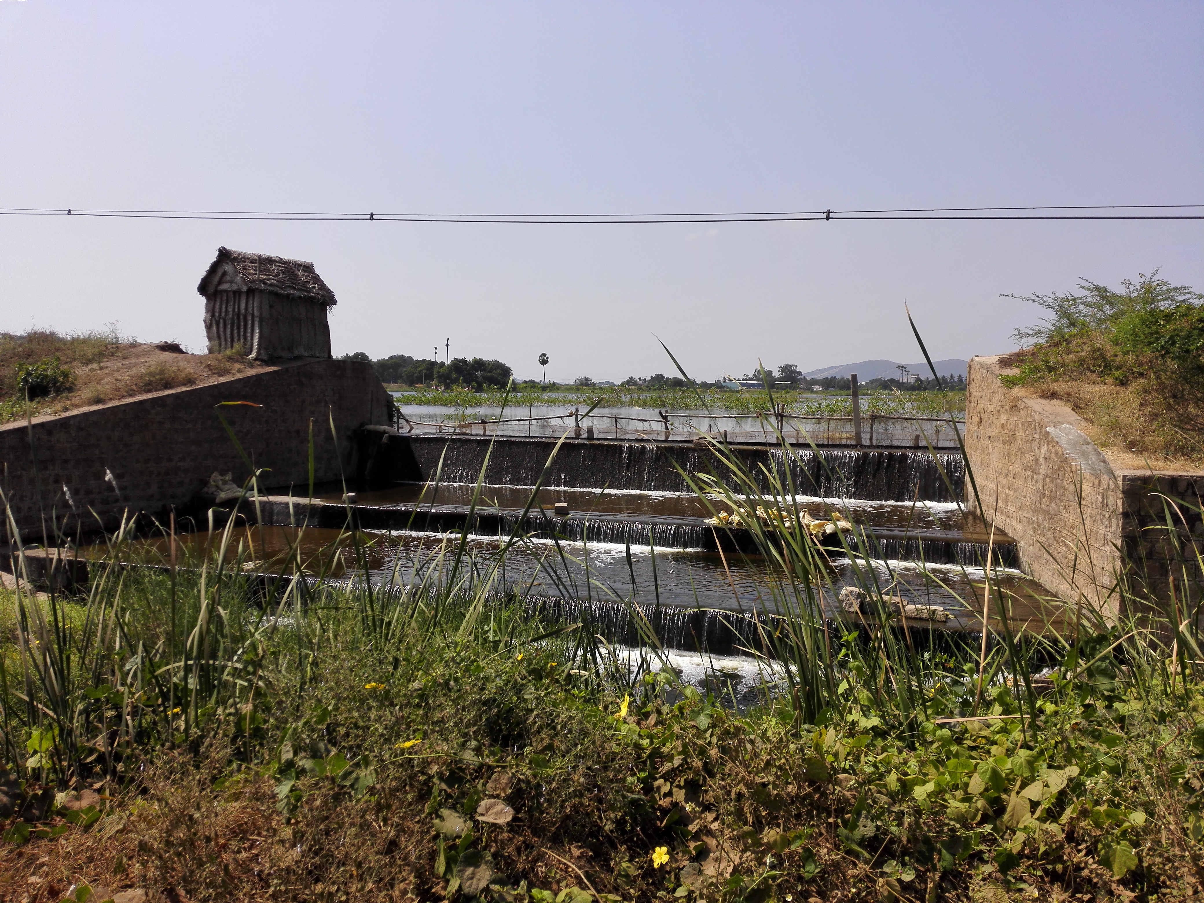 Weir of a village tank in Madurai district of Tamil Nadu. Here the weir is located such that water overflows into outlet channel once the tank gets filled